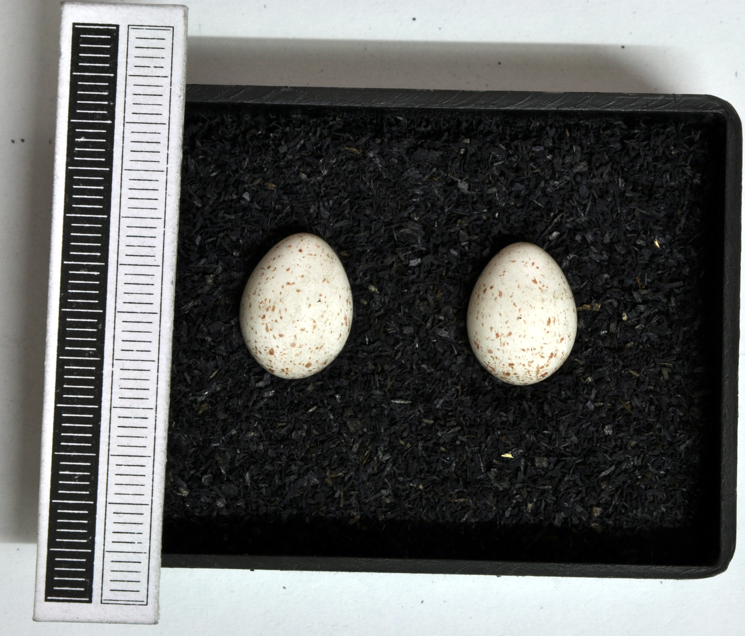 Coal tit Parus ater, egg, Coll. Museum Wiesbaden, Origin: Haar, Bavaria, 1971, leg. W. Abelmann